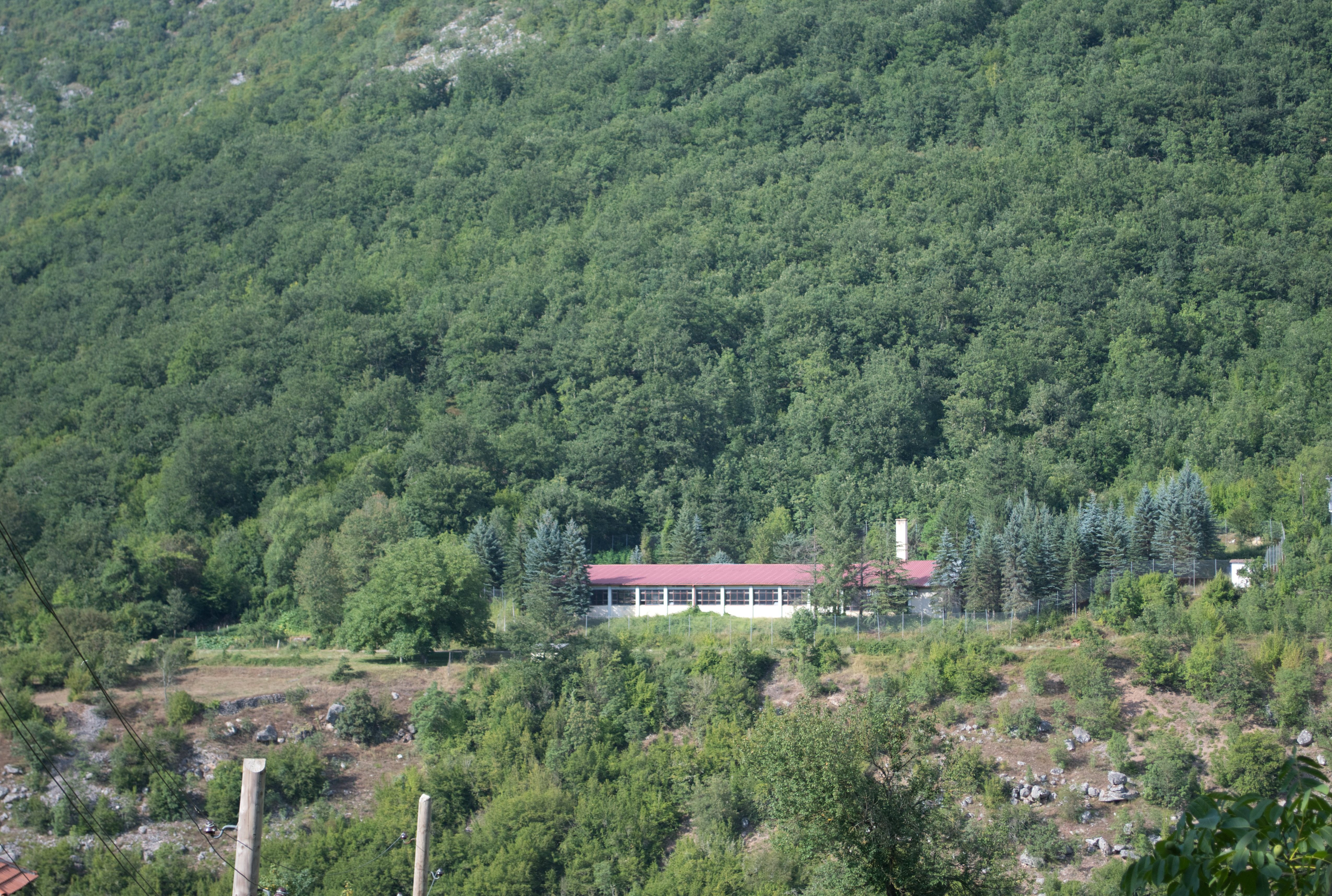 Production plant near the village of Lukovo